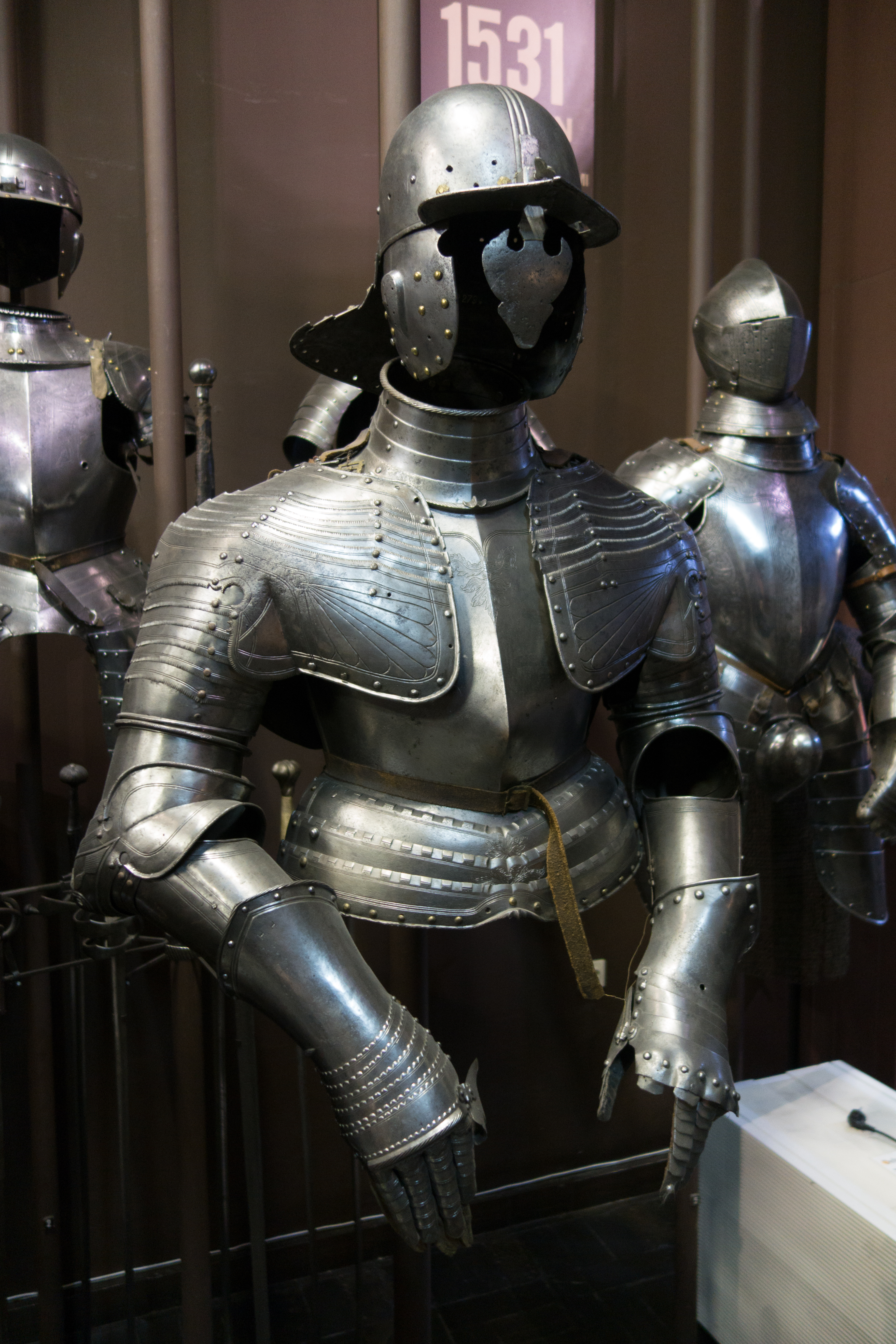 Poland 2015